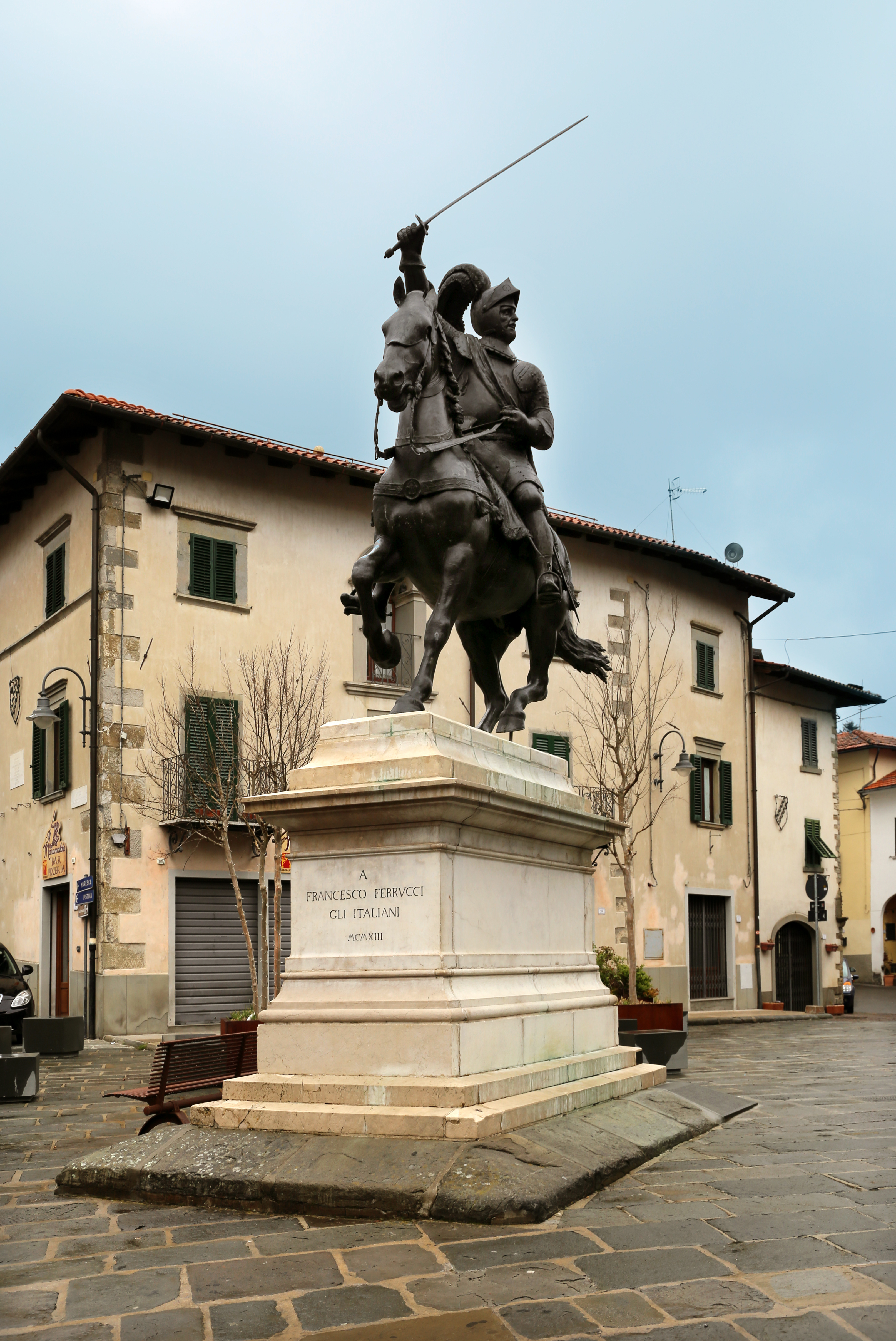 Gavinana (San Marcello Pistoiese)